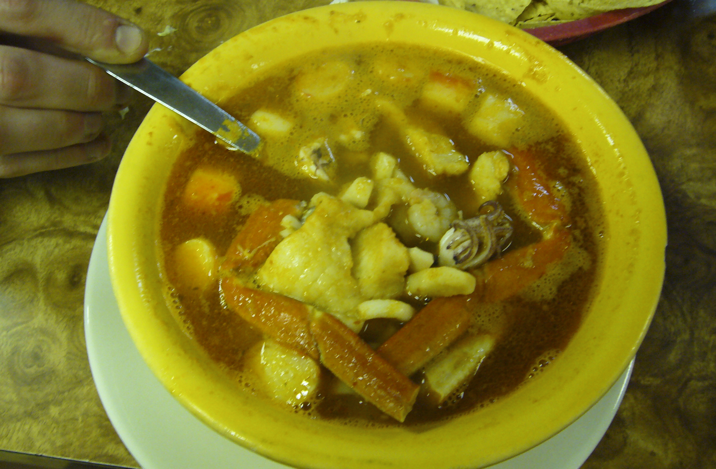 Caldo de mariscos (Mexican seafood soup) from Janitzio's restaurant in Austin, Texas